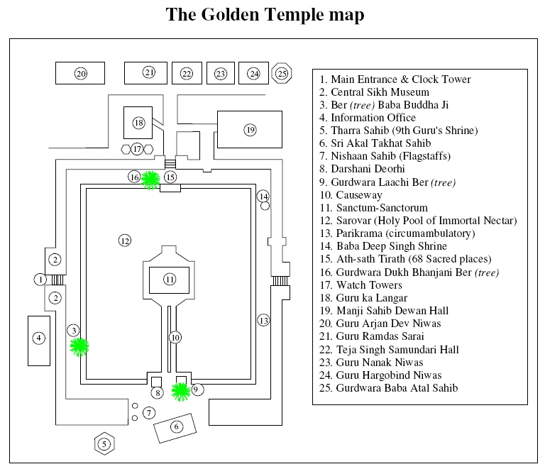 This is a map of the Golden Temple created by Sikh historian 11:59, 28 October 2007 (UTC). It may not be accurate in scale and precise location. It also does not reflect changes in the temple since 2007.